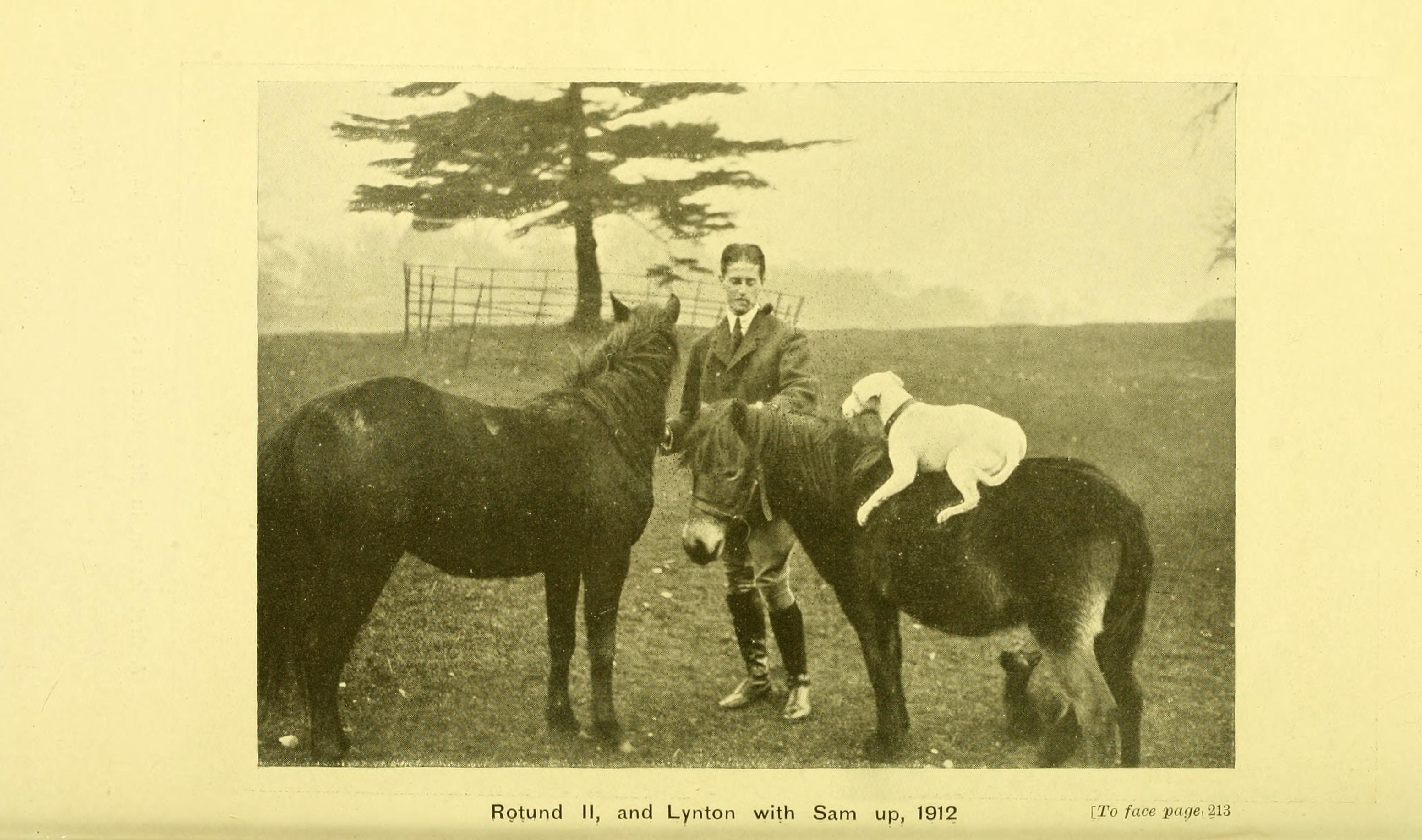 The horse, as comrade and friend : "festina lente" / by Everard R. Calthrop.